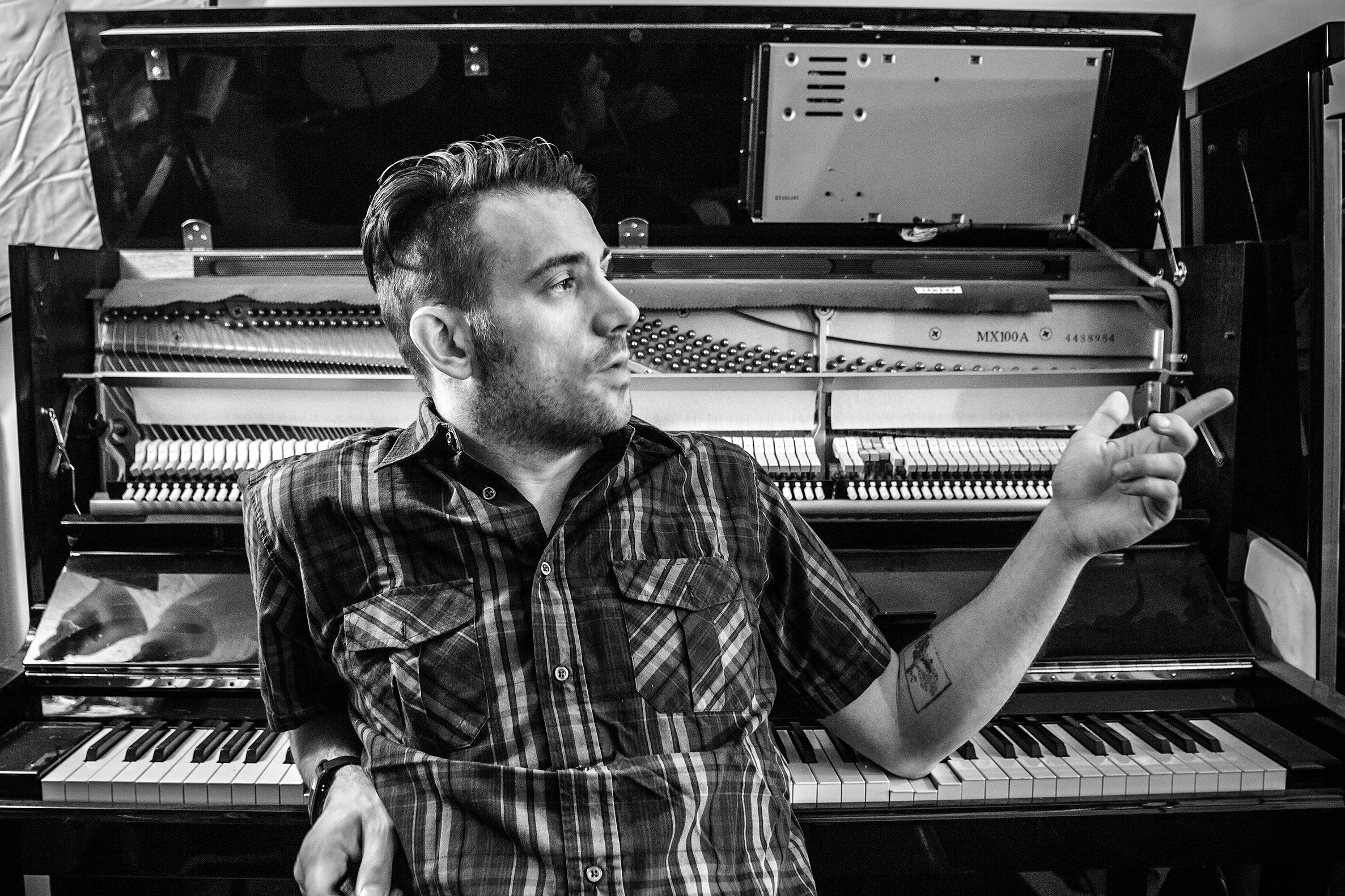 Benn Jordan in his Chicago studio, 2014.